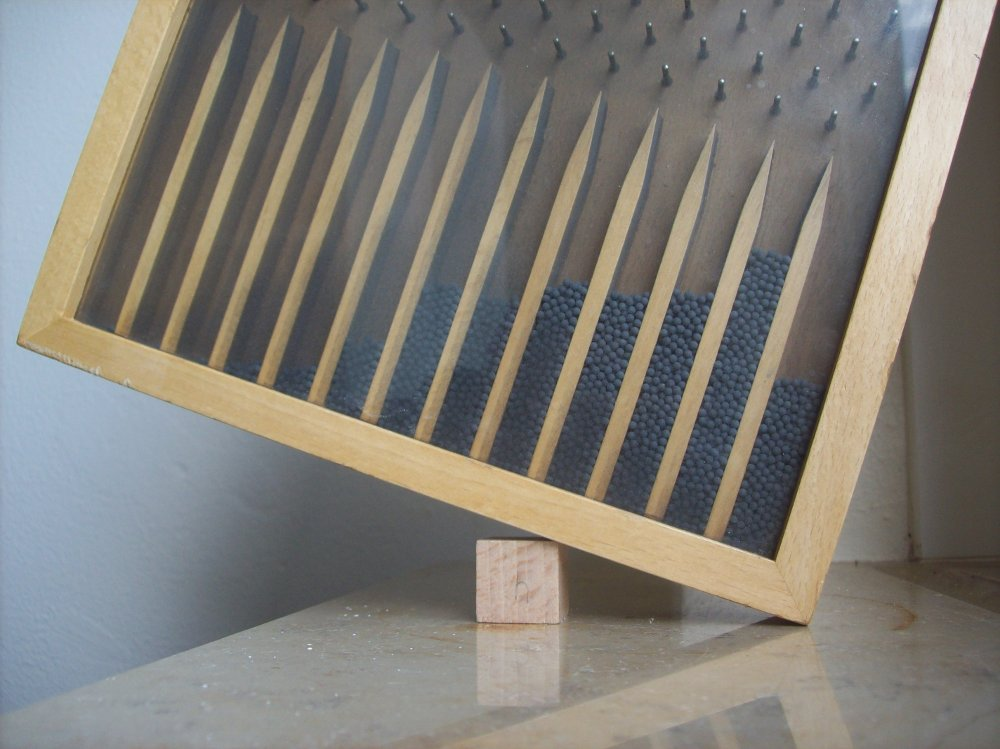 Galton box, result with tilted box